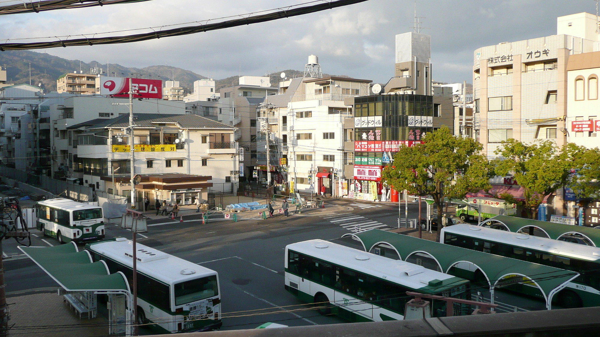 Hanshin Electric Railway,Main Line,Mikage Station north plaza. /阪神本線御影駅北口風景